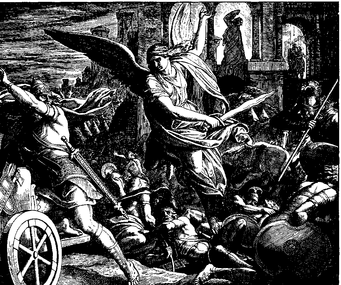 Woodcut for "Die Bibel in Bildern", 1860.